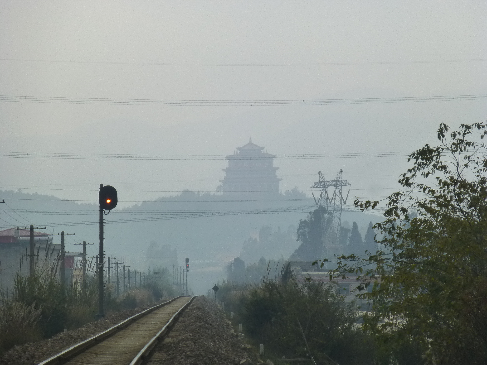 The Old Kunyang-Yuxi Railway at the crossing with China National Highway 213 (G213) near Dagucheng, in the southern part of Jinning County, Yunnan